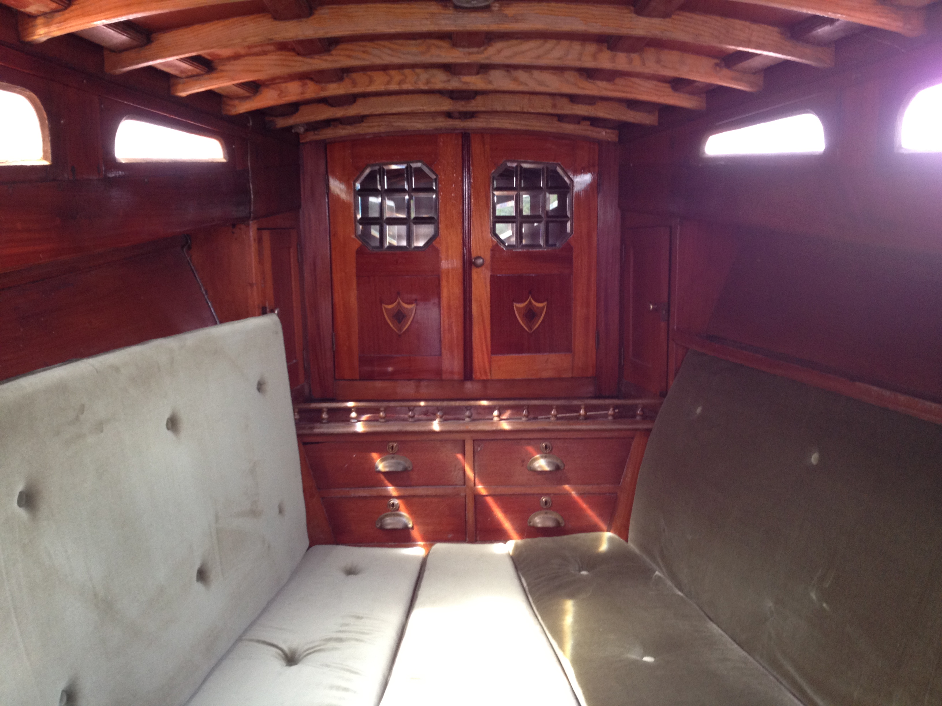 M/Y Eola from 1910, designed by Carl Gustaf Pettersson. Interior with intarsia decoration.